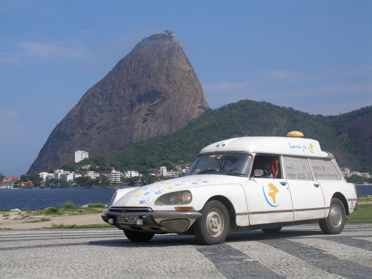 Manuel Boileau, a Frenchman, is driving his ambulance DS around the world. Here is the car in Rio de Janeiro, with the Sugar Loaf in the background, 2,5 years after the start of the trip.